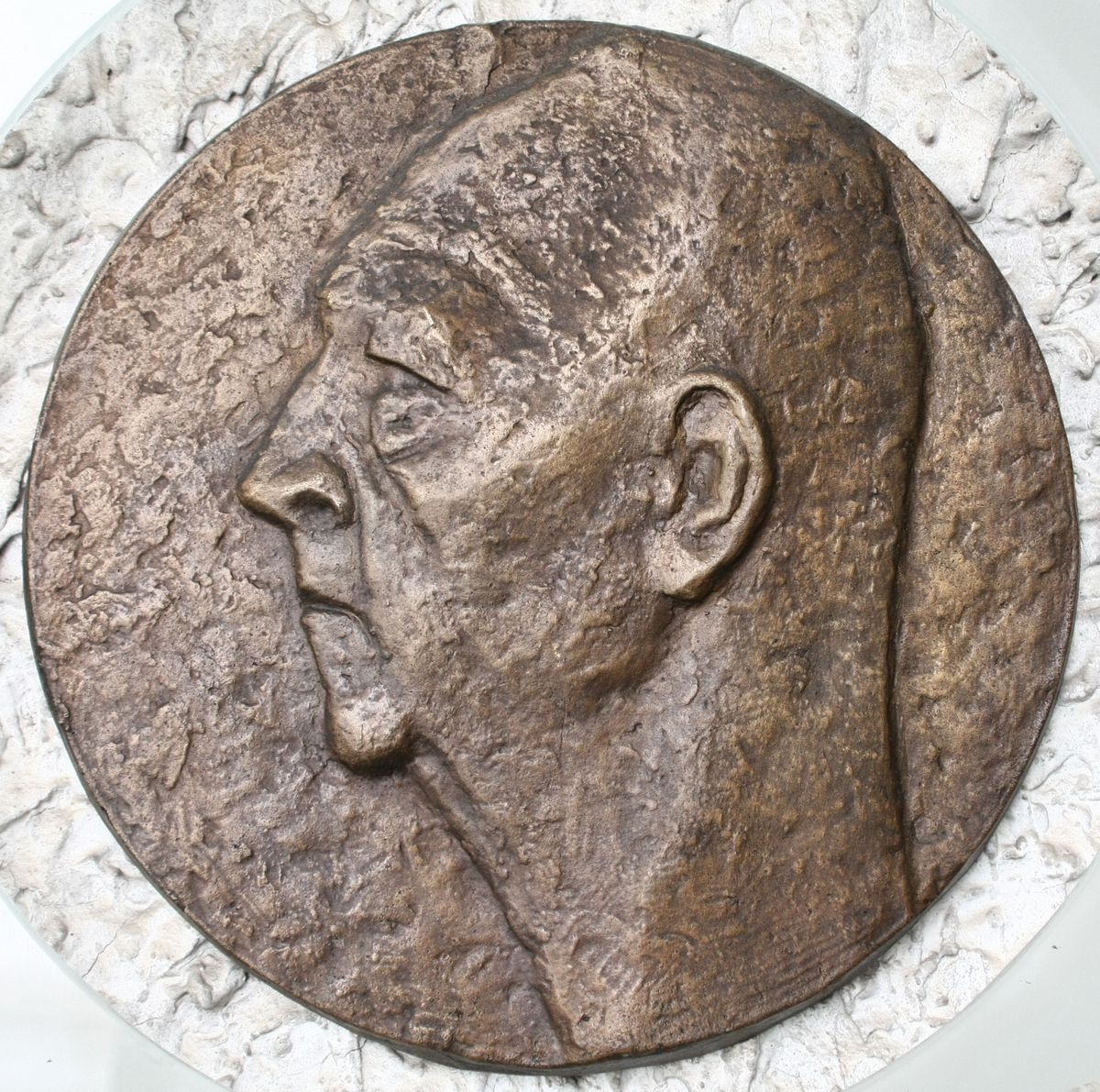 Low-relief of Leontije Pavlović